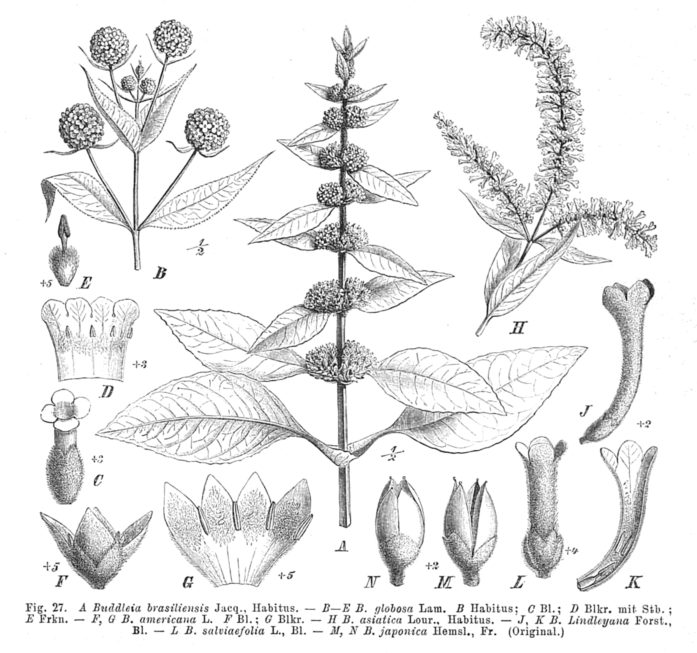 Buddleja spp.A. B. brasiliensis: Habitus.B-E. B. globosa: B. Habitus. C. Flower. D. Petals w/ anthers. E. Ovary.F/G. B. americana: F. Flower. G. Petals.H. B. asiatica: Habitus.J/K. B. lindleyana: Flower, section.L. B. salviifolia: Flower.M/N. B. japonica: Fruits.